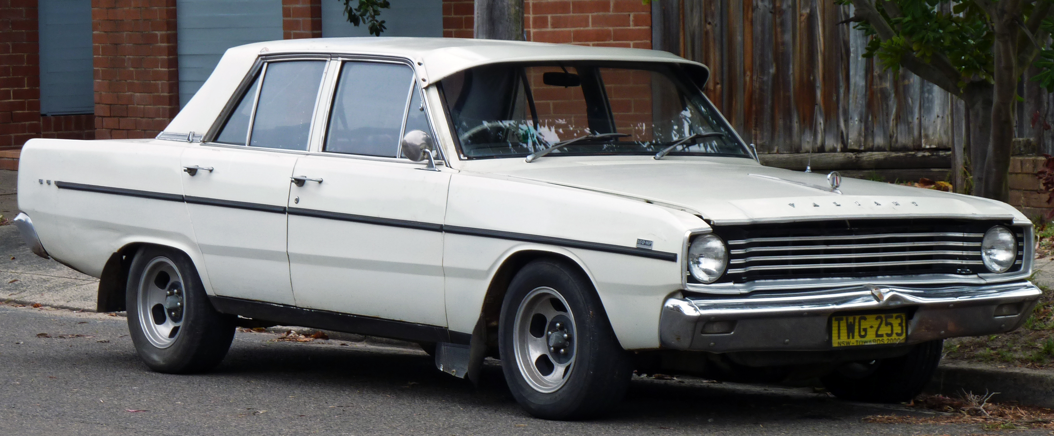 1968 Chrysler Valiant (VE) sedan. Photographed in Sandringham, New South Wales, Australia.